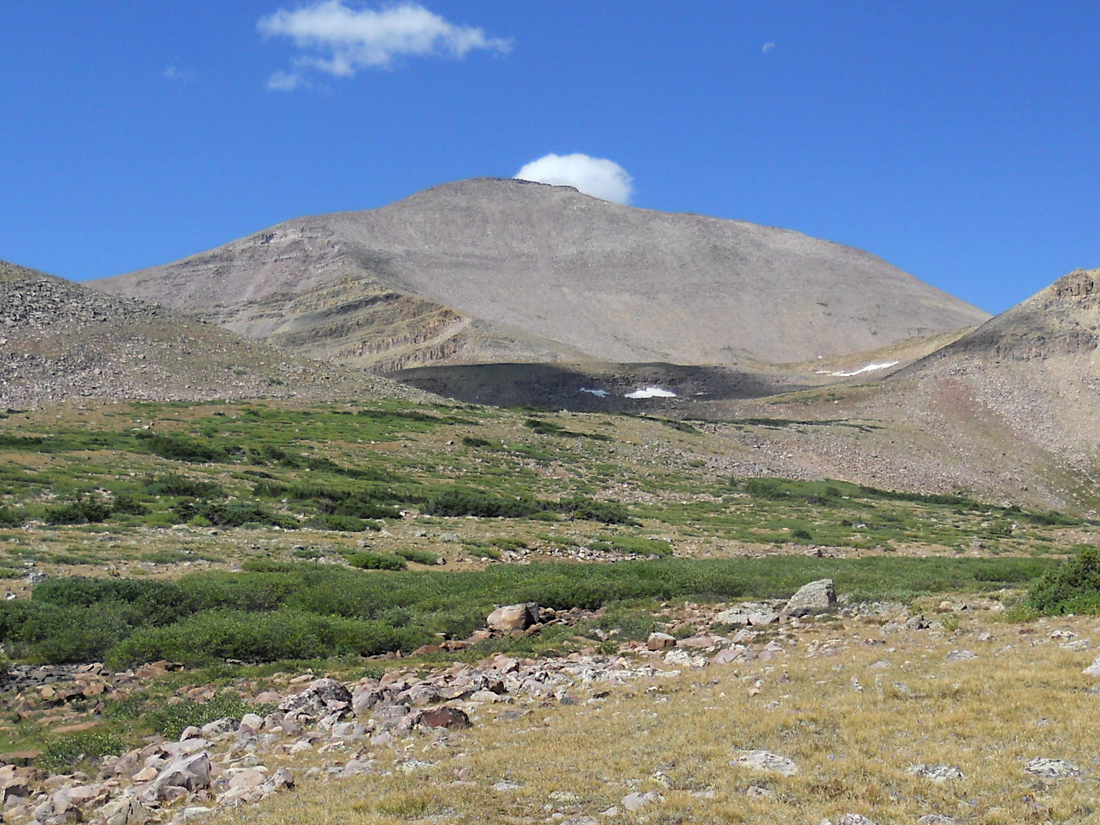 Kings Peak as viewed from the east. At an elevation of 13,528 ft (4123 m), Kings Peak is the highest summit in Utah. It is located in the High Uintas Wilderness within Ashley National Forest. The photo was taken from the Uinta Highline Trail in Painter Basin.